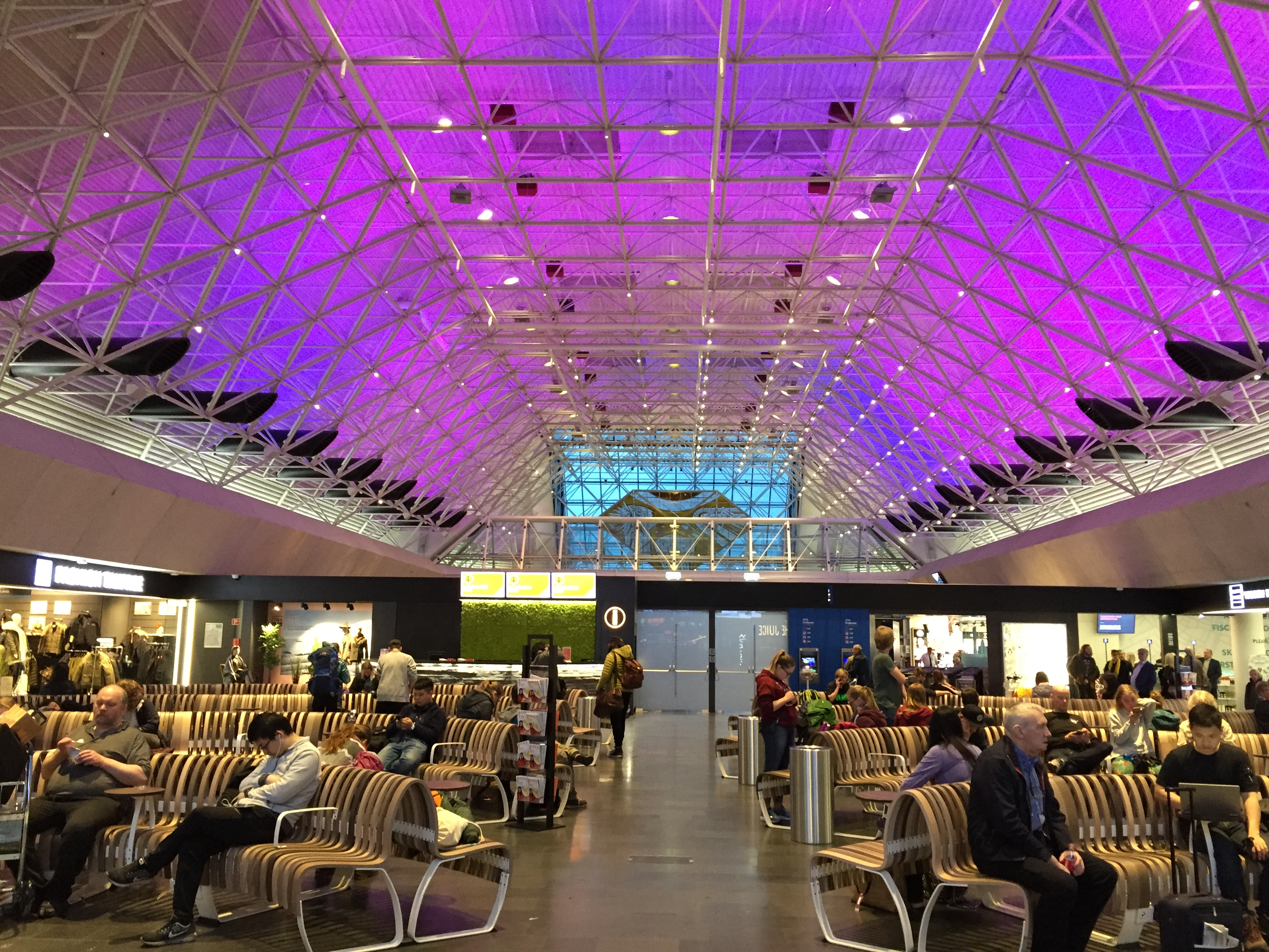 Main waiting area of Keflavík International Airport in 2018